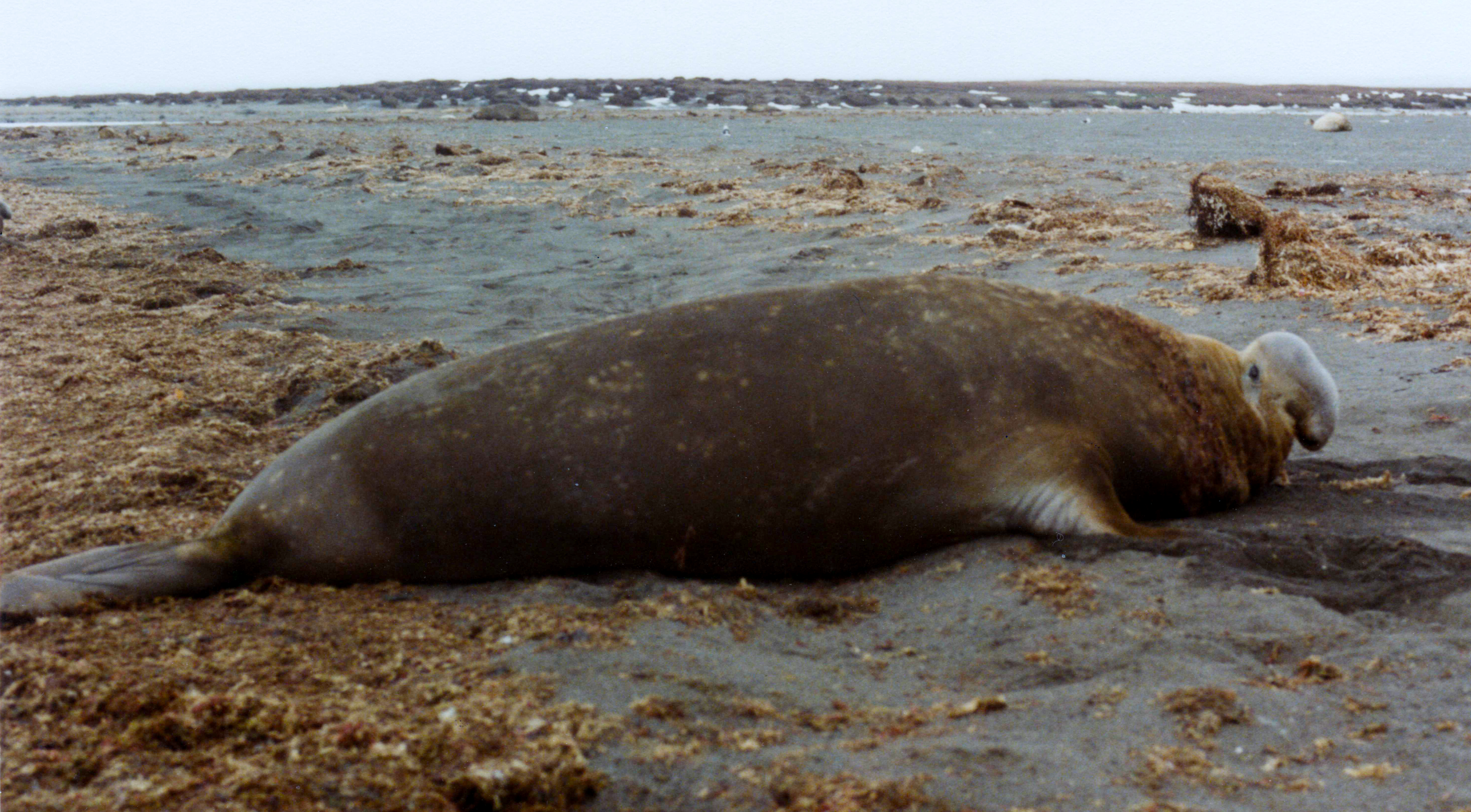 Big male of a southern elephant seal (Mirounga leonina) on a sand beach of Kerguelen Islands